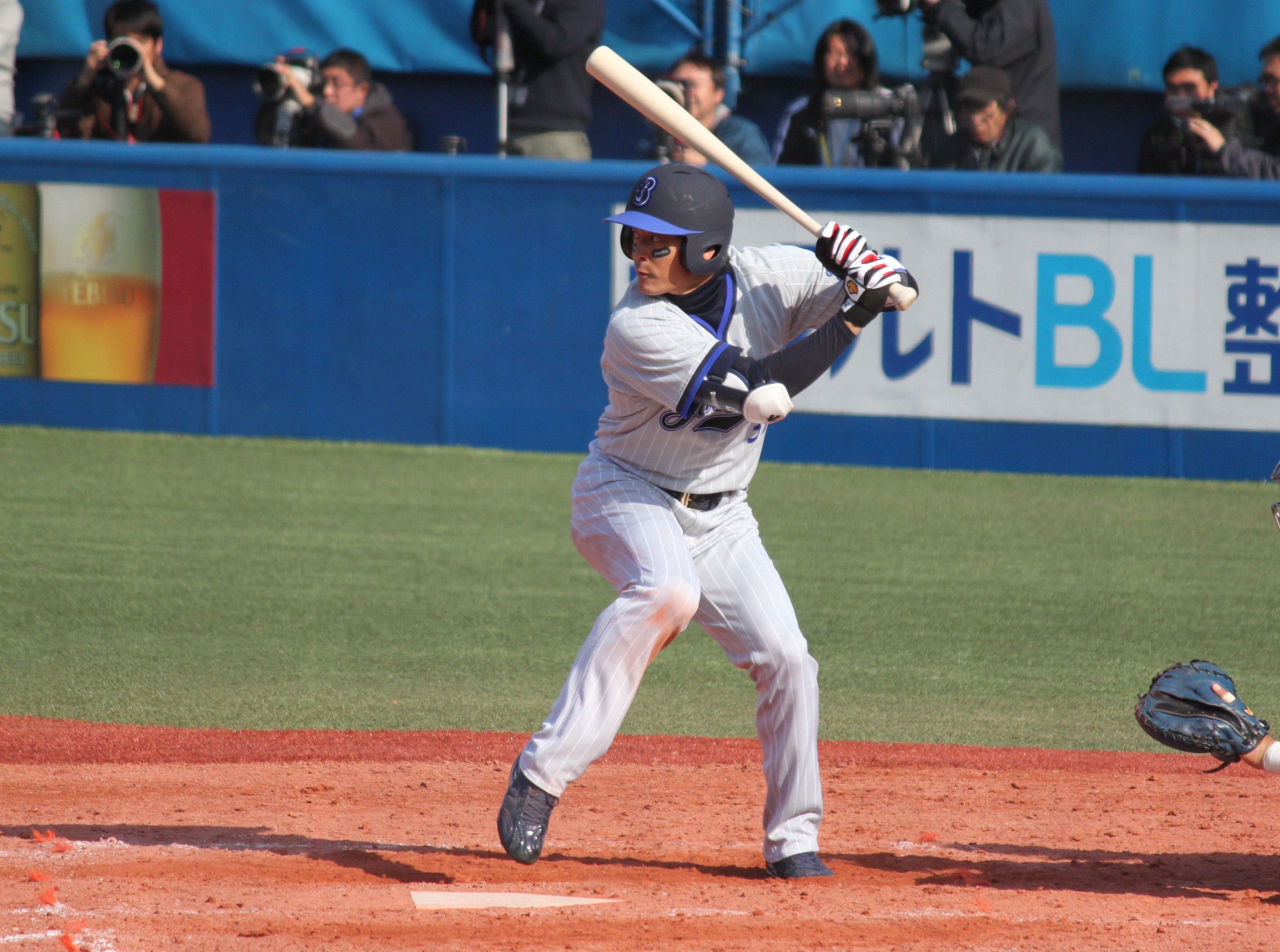 Daisuke Hayakawa, outfielder of the Yokohama BayStars, at Meiji Jingu Stadium.